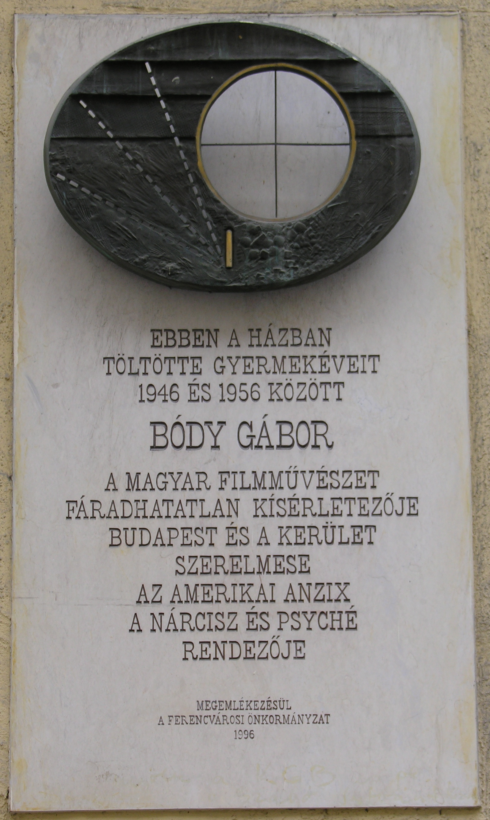 Commemorative plaque of Gábor Bódy in Budapest District IX, Ráday Street No 63